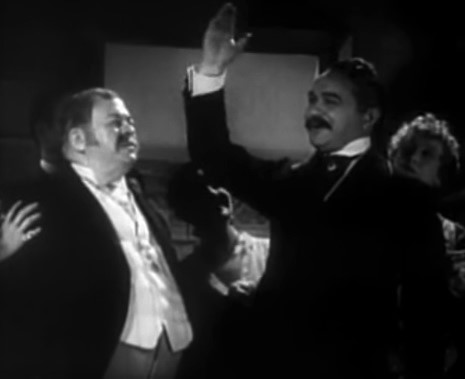 Harry Holman (left) & Edward G. Robinson in Silver Dollar - trailer (cropped screenshot)